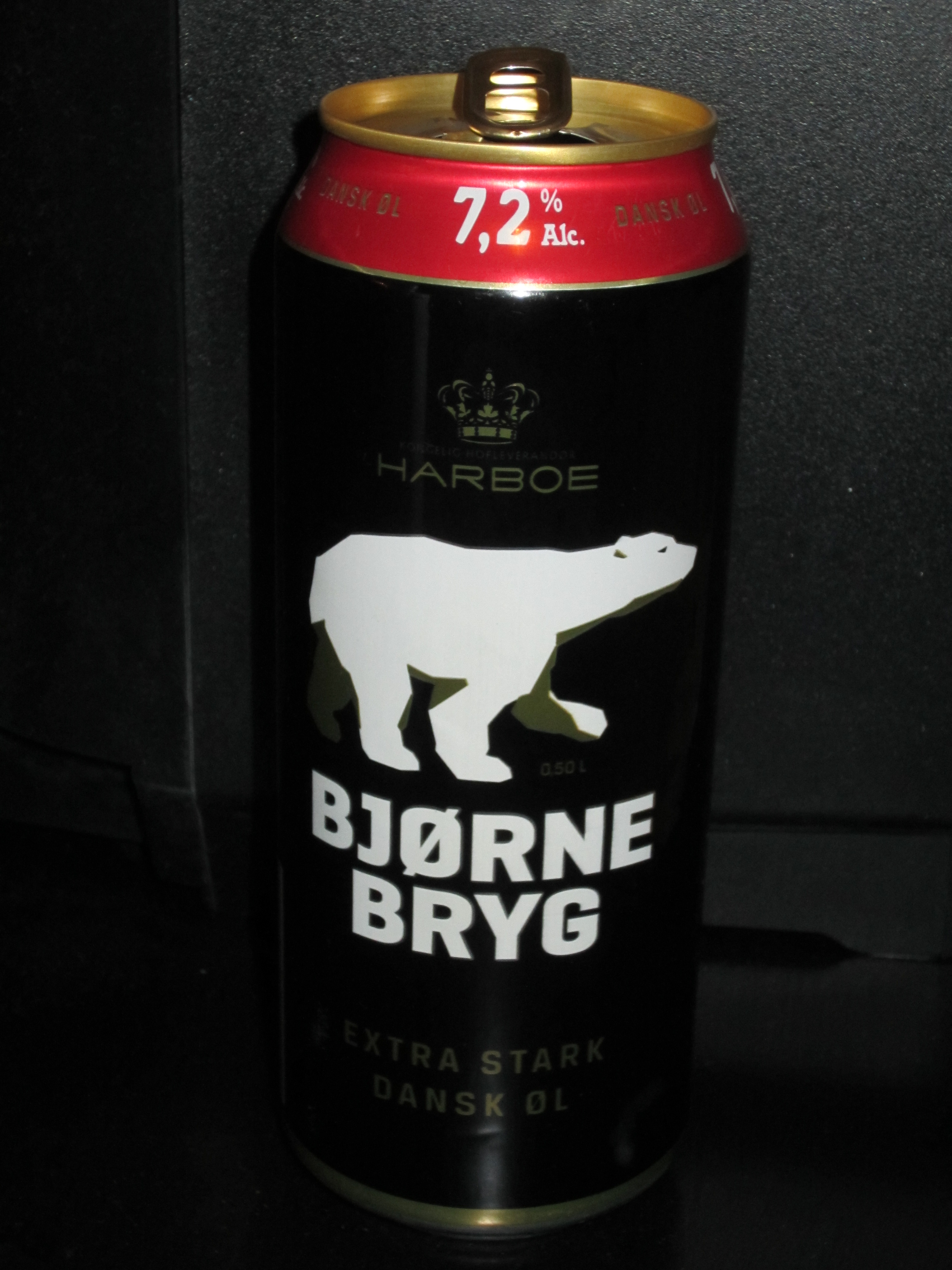 Danish beer: Harboe Bjørnebryg 7,2%